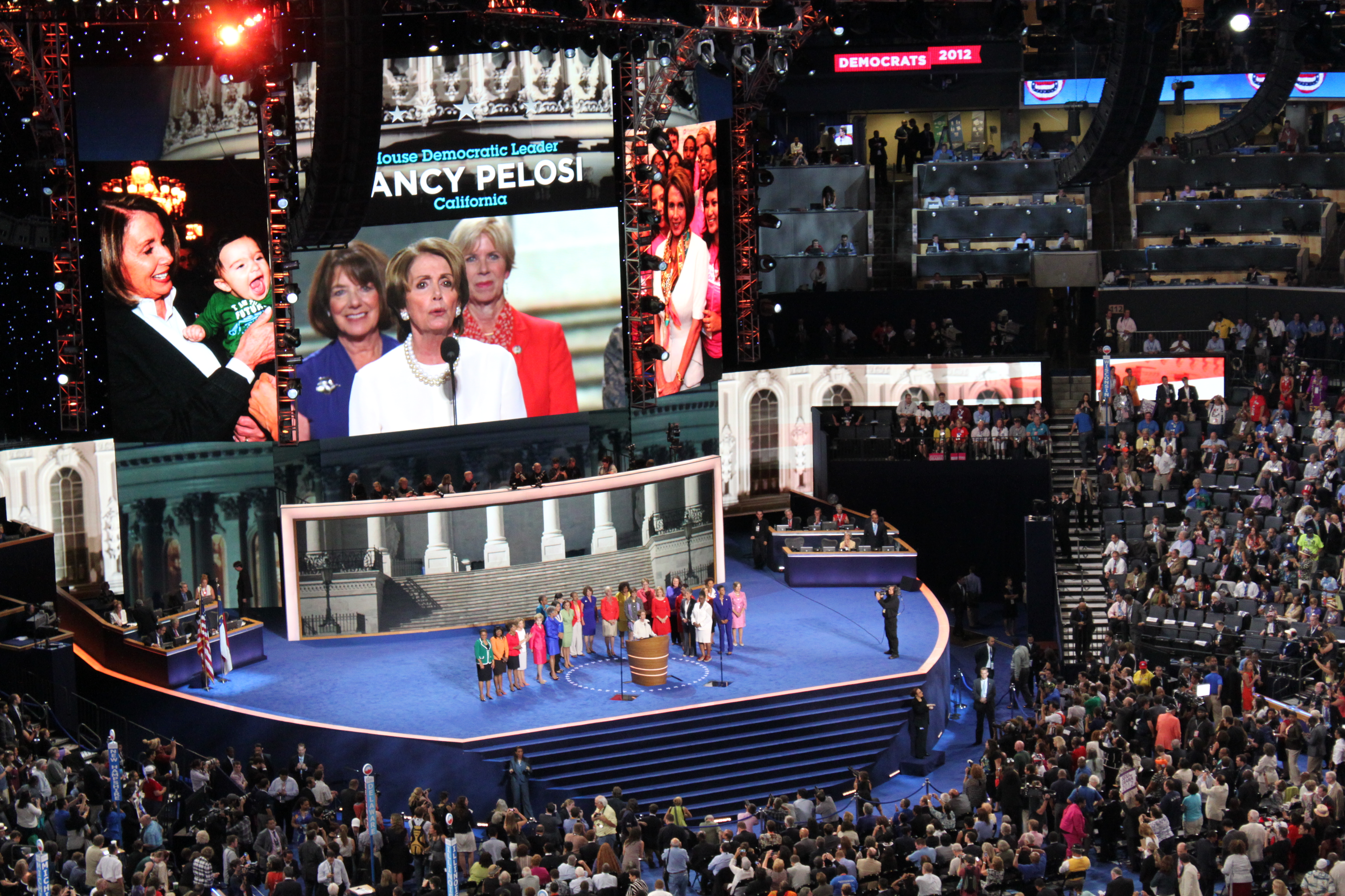 2012 Democratic National Convention